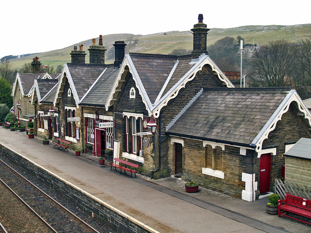 Settle station Up (to Leeds) platform. Tuesday 18th December 2007